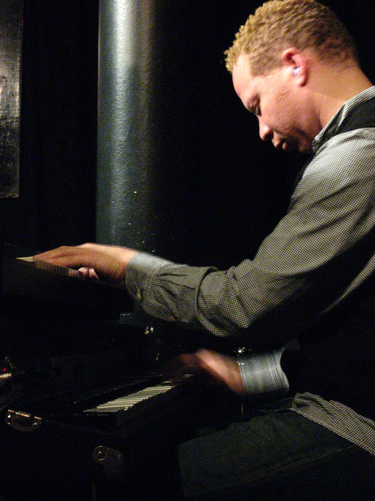 Craig Taborn (Prezens, at the Vortex (London) 13/1/08)